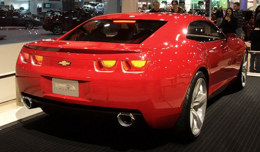 Chevrolet Camaro concept car at the 2006 Houston Auto Show